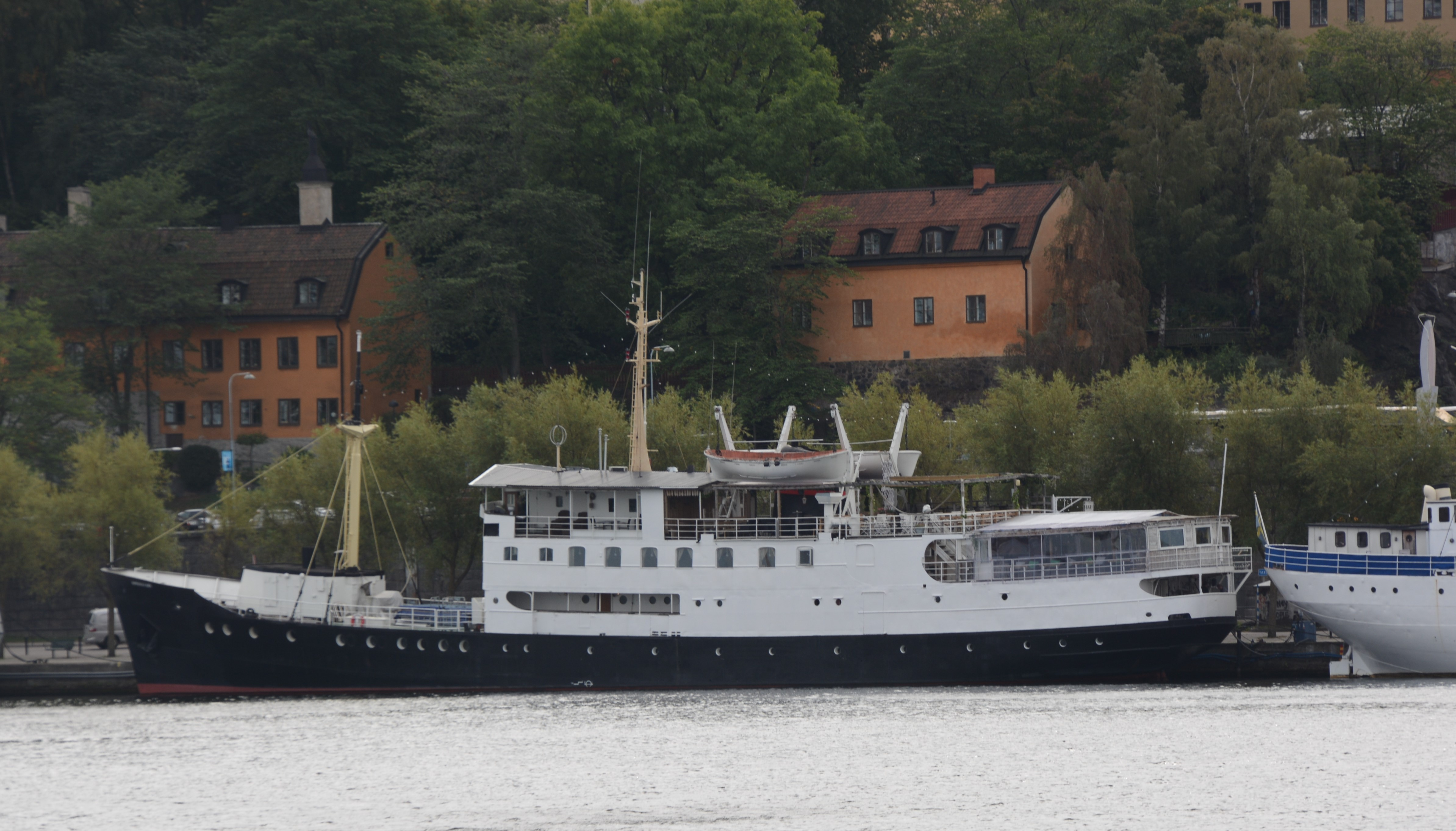 M/S Kronprinsesse Martha, earlier S/S Kronprinsesse Märtha, semi-permanently moored at Söder Mälarstrand in Stockholm in Sweden as hotel ship.